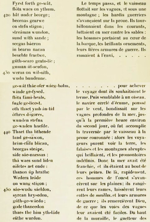 Lines 210ff of Beowulf in parallel text with the French of Hubert Pierquin, published 1912, starting "Fyrst forth gewat..."